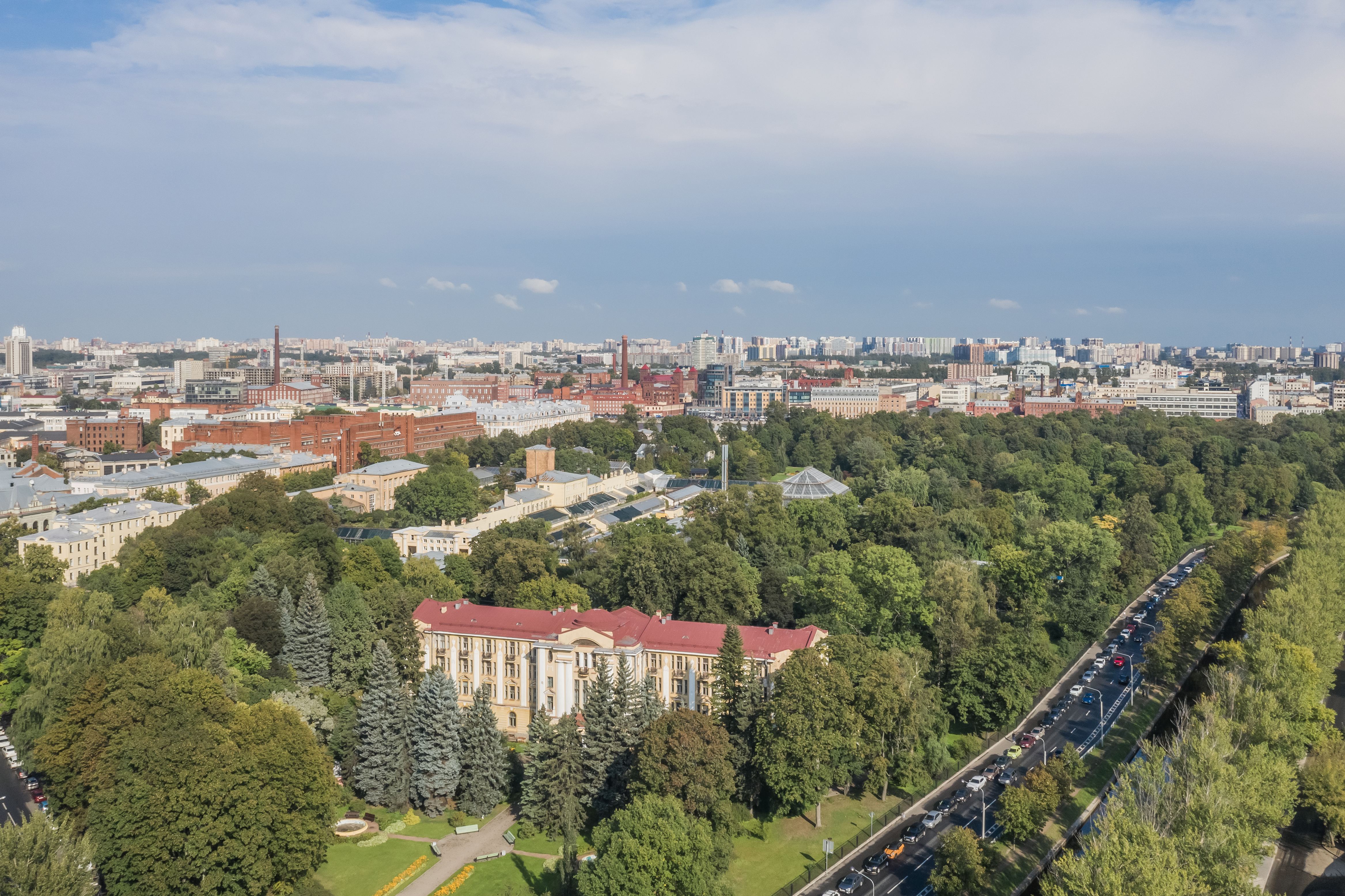 Botanical Garden on Aptekarsky Island in Saint Petersburg, Russia: aerial photo